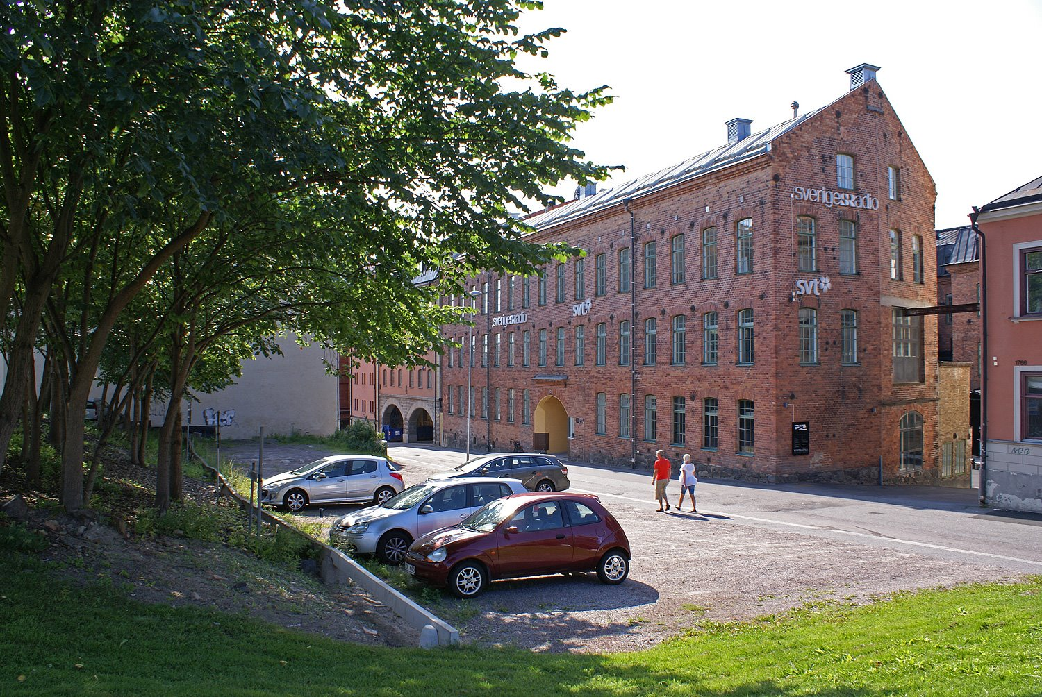 The Public Service Building in Norrköping, Sweden